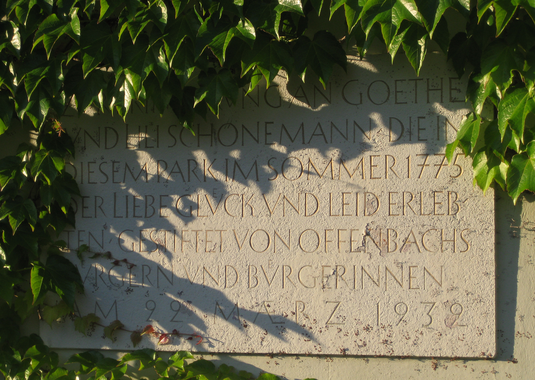 Memorial plate for Johann Wolfgang Goethe and Lilly Schönemann